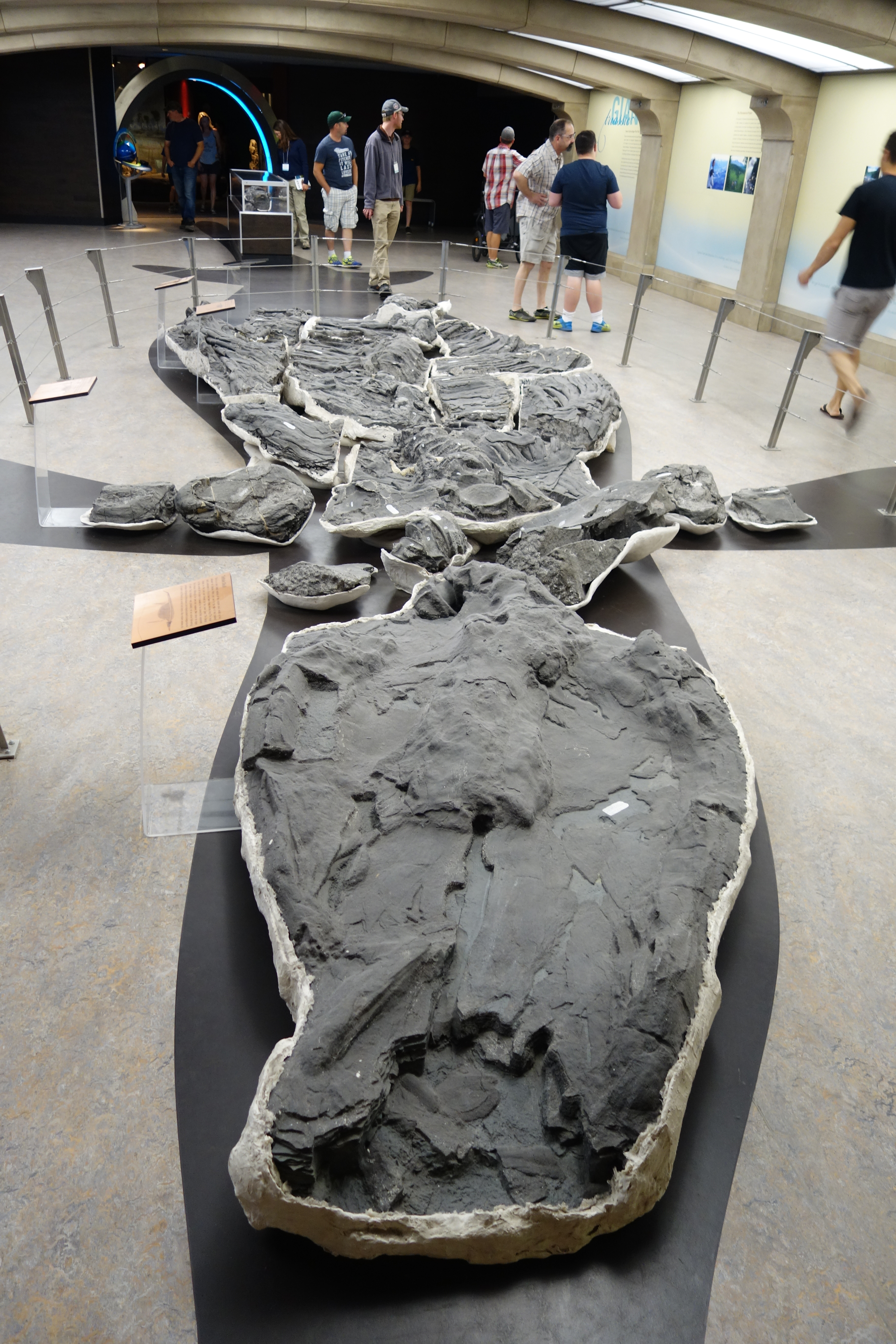 Shonisaurus sikanniensis (original). On display at the Royal Tyrrell Museum, Alberta, Canada.